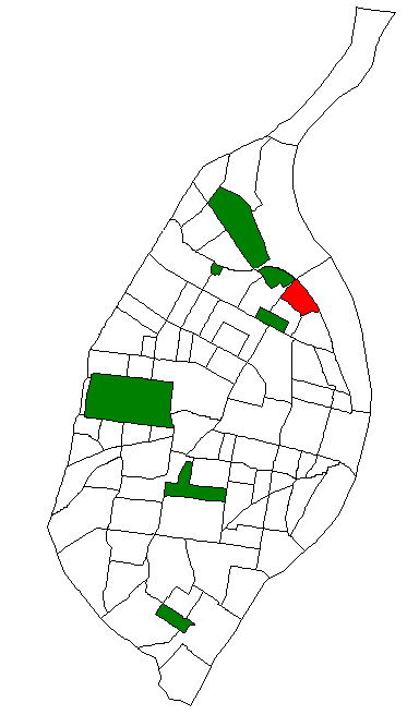 Map of St. Louis neighborhood #66 (College Hill)